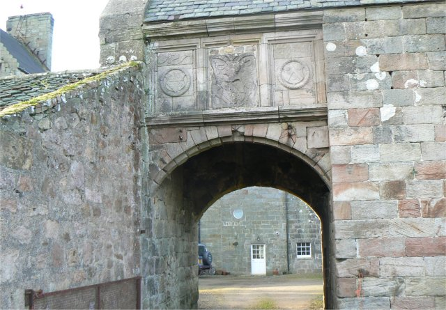 Archway entrance The entrance to the courtyard of 16th century Balcomie castle. The arms above the gatehouse are those of John Learmonth and his wife Elizabeth Myretouns. It was at Balcomie that Mary of Guise was welcomed in June 1538 when she landed in Scotland on her way to marry James V at St Andrews.